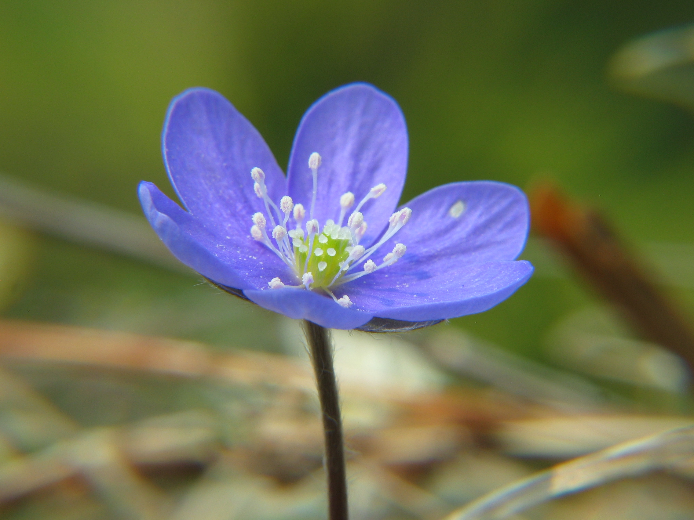 Hepatica nobilis, photo taken in Sweden